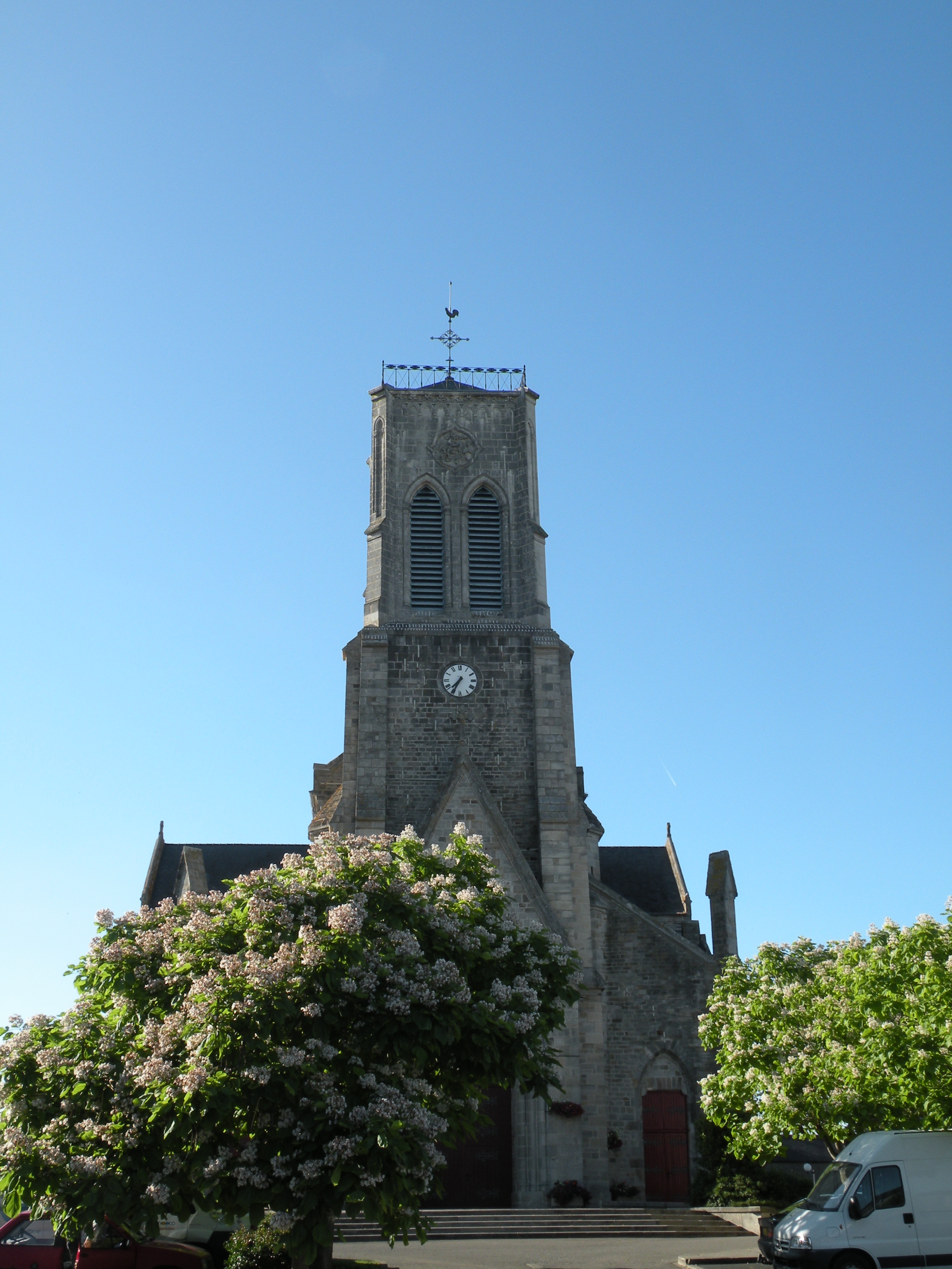 Church of Pipriac